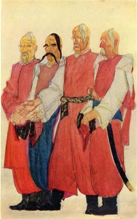 Work by Krychevsky